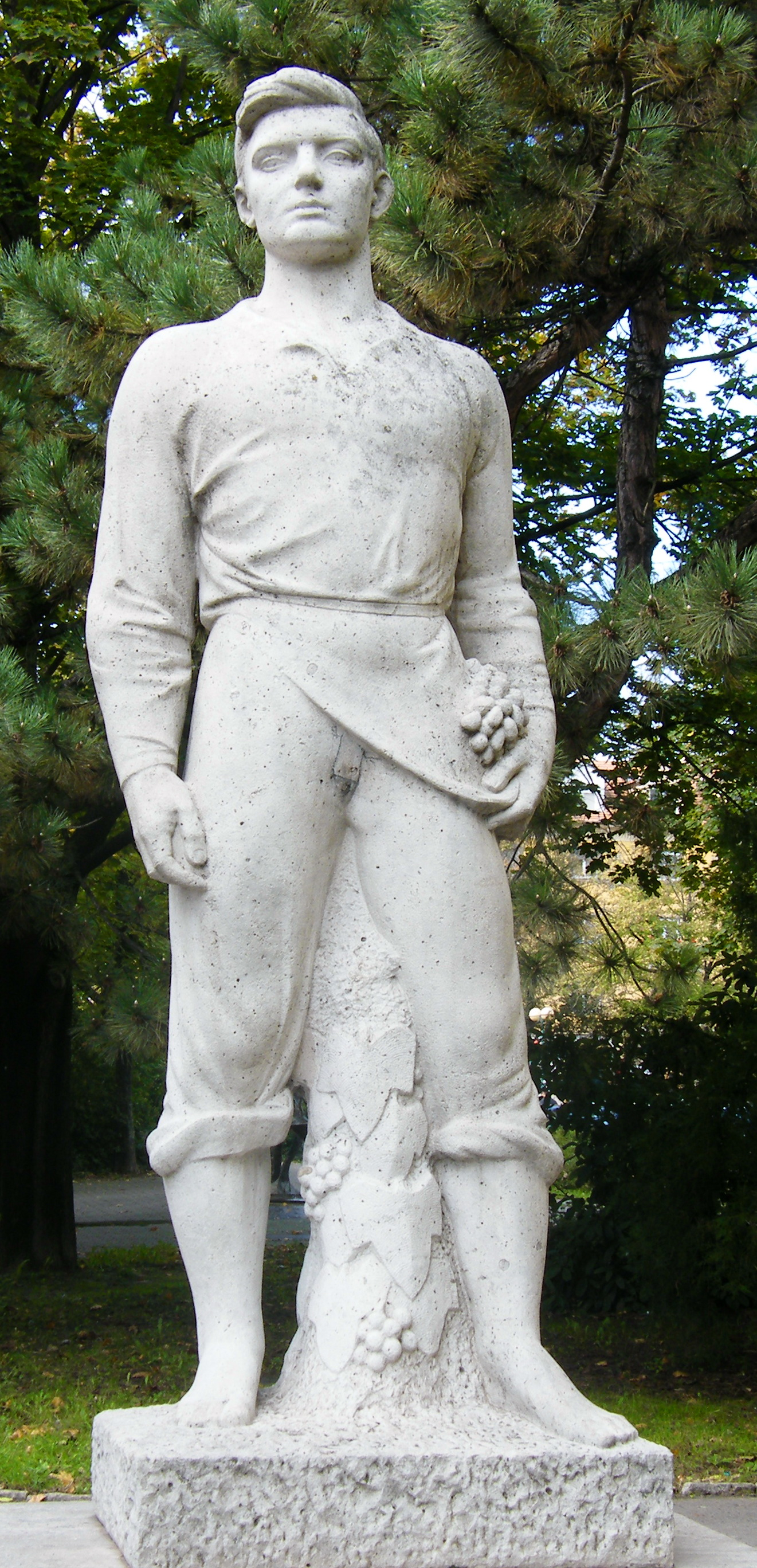 "Vincellér fiú" statue, Dunaújváros. Sculptor: Ernő Jálics (1895–1964) in 1955